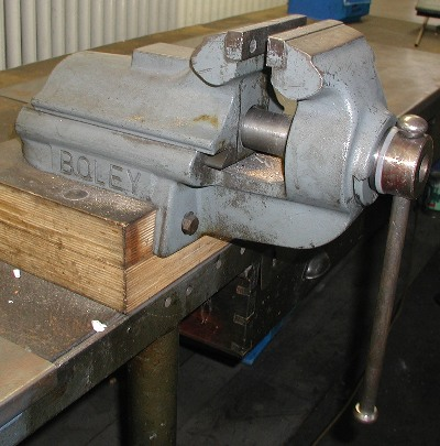 Vise bench